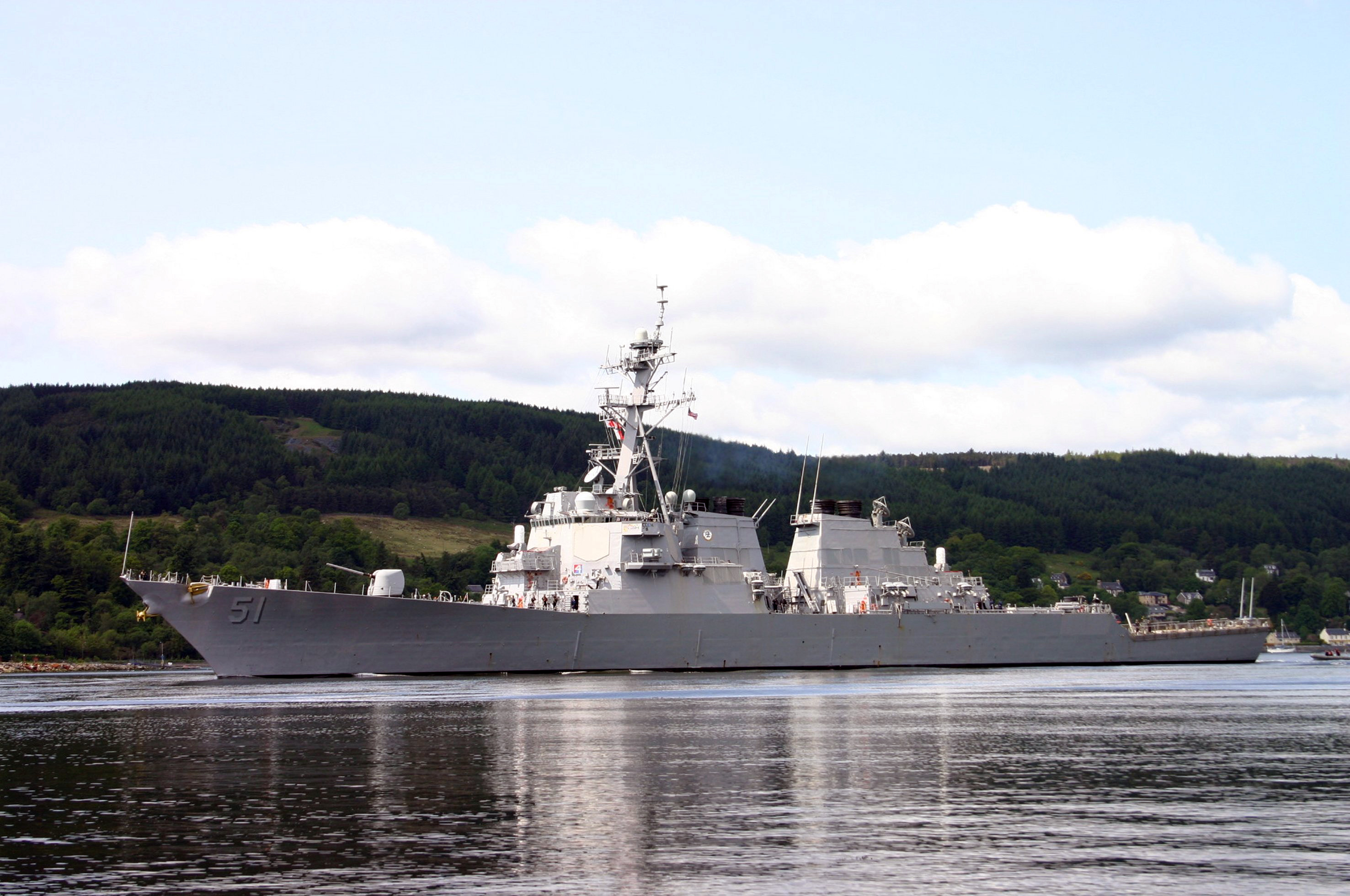 Faslane, Scotland (June 6, 2005) – The guided missile destroyer USS Arleigh Burke (DDG 51) departs Clyde Naval Base in Faslane, Scotland. Arleigh Burke is currently participating in the Joint Maritime Course, a multinational NATO exercise being conducted off the coast of Scotland. U.S. Navy photo by Mr. Dave Cullen (RELEASED)